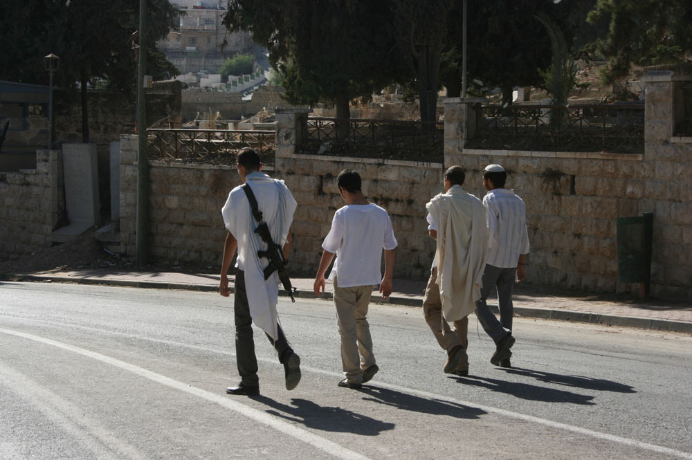 Settlers taking a walk on Shuhada Street. Settlers often bring their assault rifles around - photo by Stella